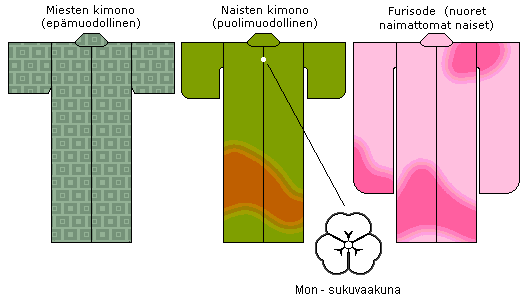 "A picture of kimono for the kimono article. Drew it by myself by Paint as you can see."